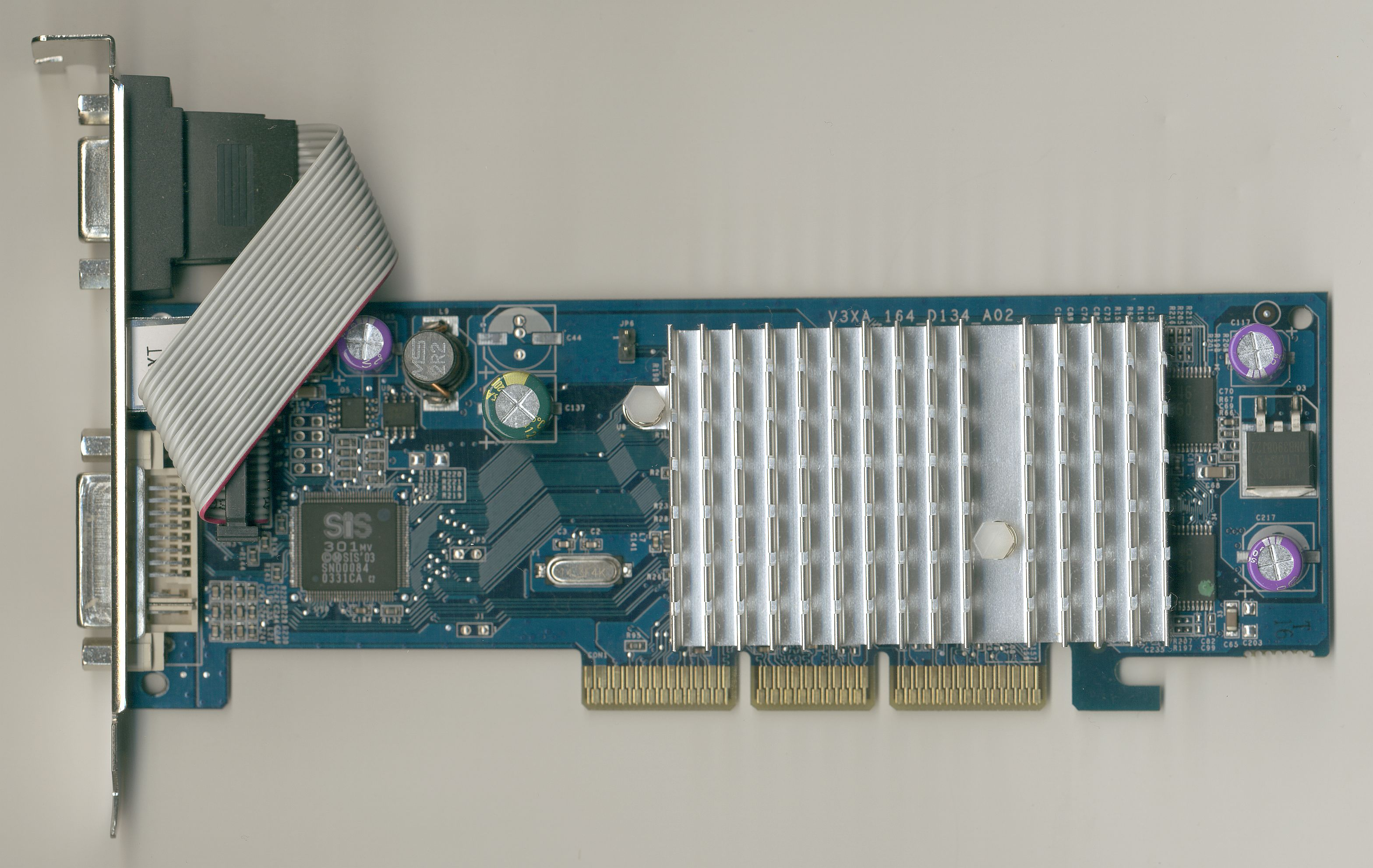 Description : XGI Volari V3XT AGP 64MB DDR Photographer/Painter : mac3216